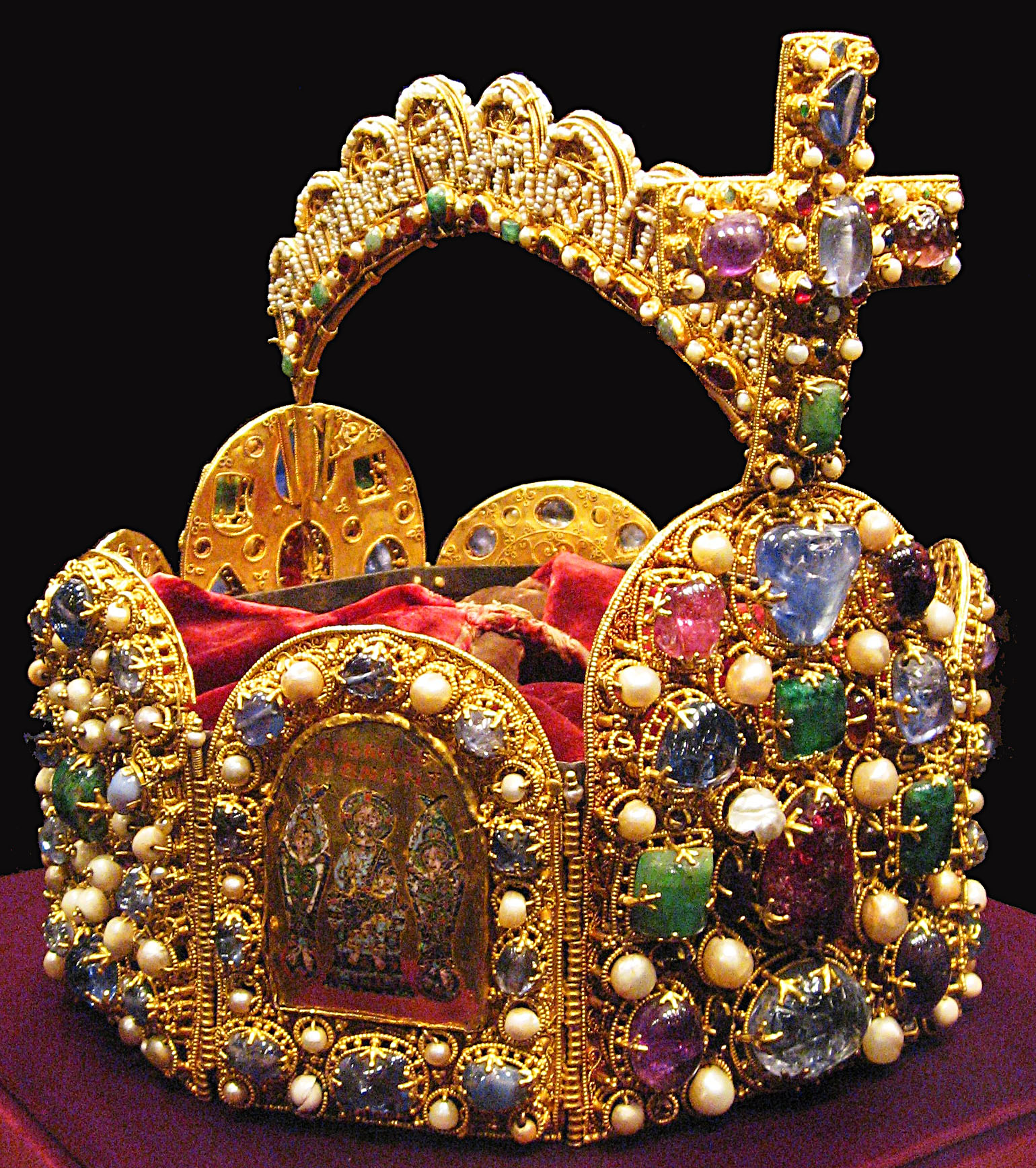 The Imperial Crown Western Germany 2nd half of the 10th century The cross is an addition from the early 11th century; the arch dates from the reign of Emperor Conrad II (ruled 1024-1039); the red velvet cap is from the 18th century. Gold, cloisonné enamel, precious stones, pearls Brow plate: H 14.9 cm, W 11.2 cm; cross: H 9.9 cm SK Inv. No. XIII 1